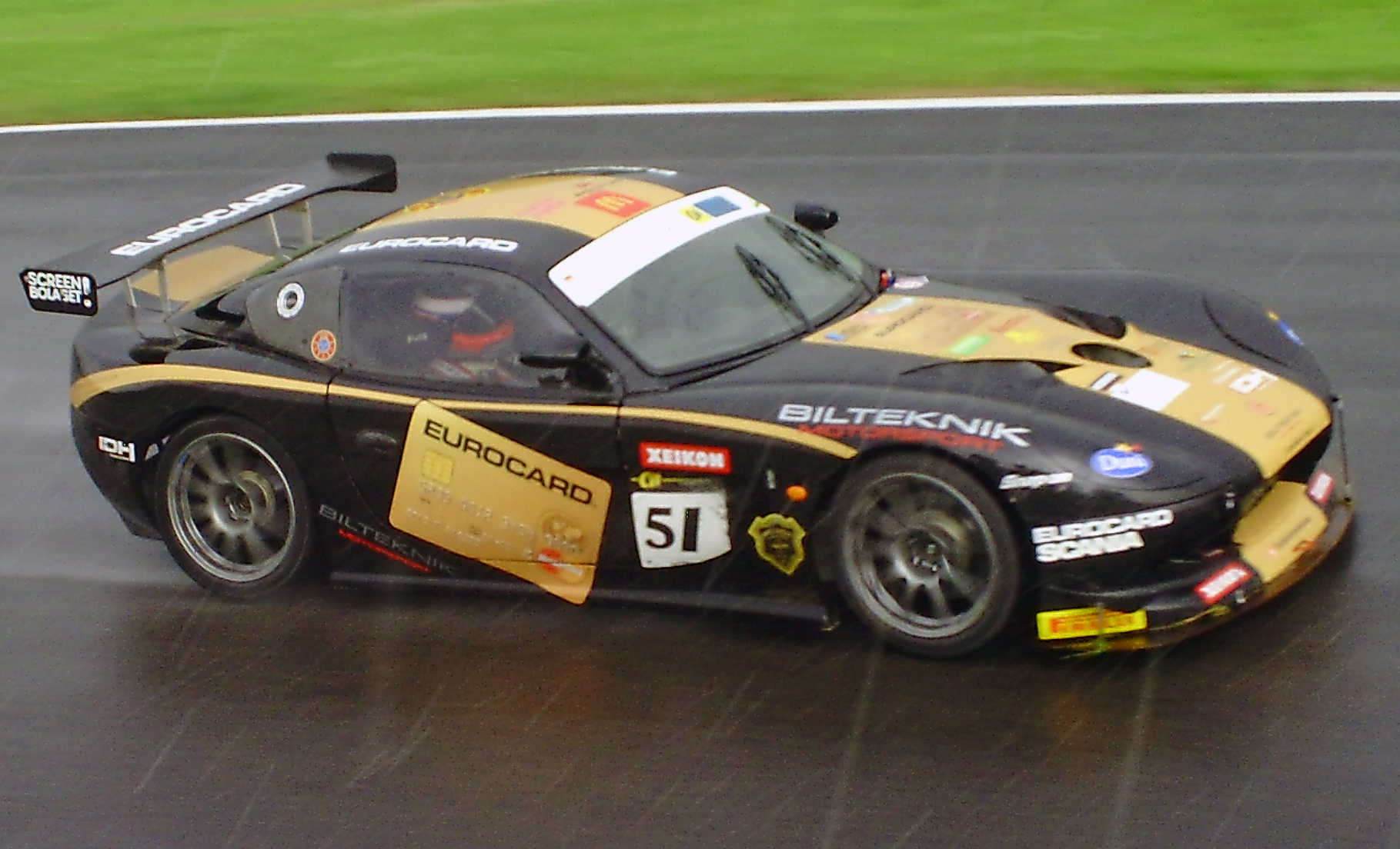 A Ginetta G50 driven by Hampus Rydman and Johan Lindbrandt for Bilteknik Motorsport in Swedish GT Series at Falkenbergs Motorbana, 2011